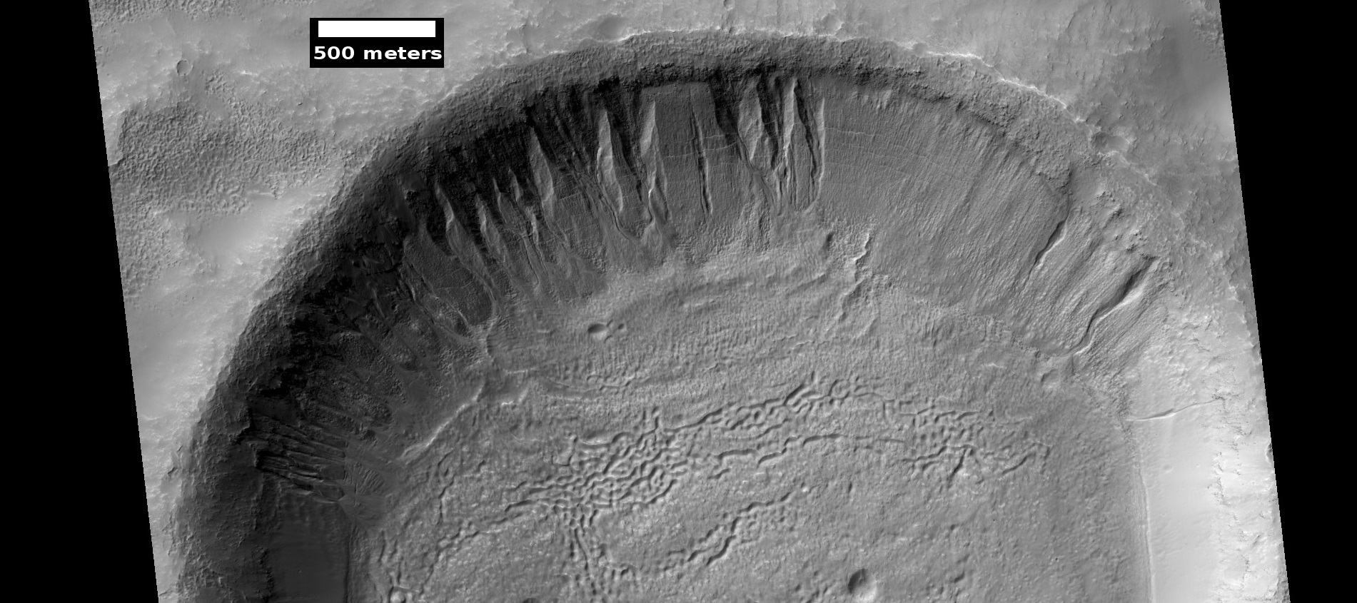 Gullies on wall of crater on rim of small, unnamed crater within Newton crater on Mars, as seen by hirise under the HiWish program